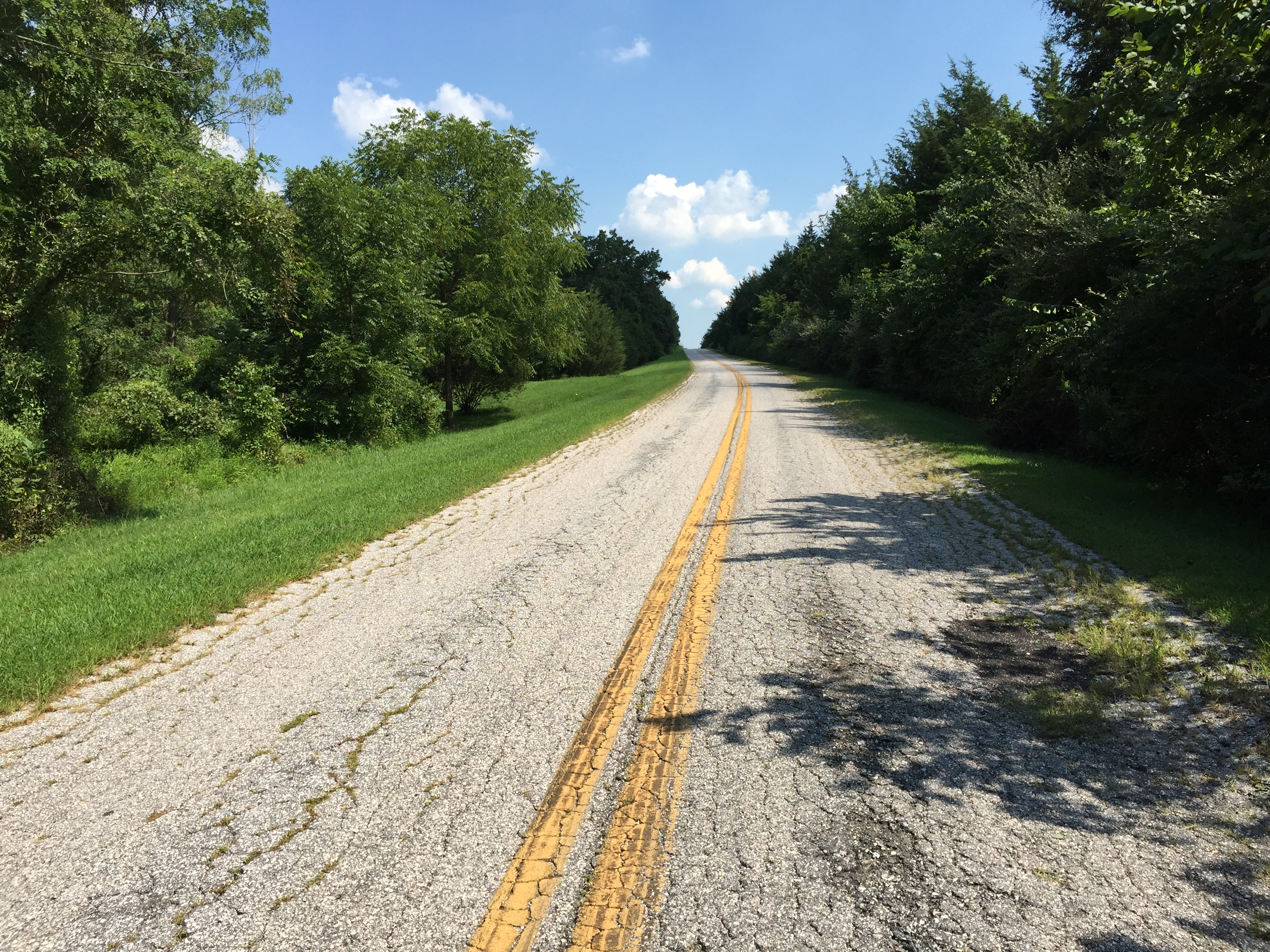 View east along Maryland State Route 904 (Runnymede Road) east of Bear Branch in northwestern Carroll County, Maryland